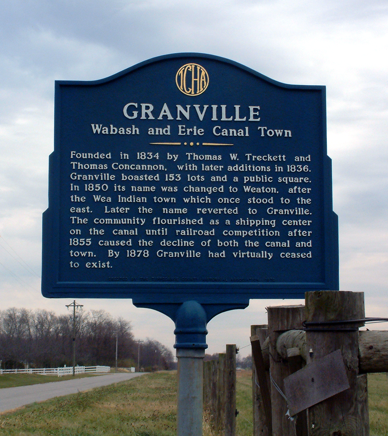 The Tippecanoe County Historical Association marker near the extinct town of Granville, Indiana, southwest of the city of West Lafayette along the Wabash River. Photo looks east along County Road 75 South. The marker reads: GranvilleWabash and Erie Canal Town Founded in 1834 by Thomas W. Treckett and Thomas Concannon, with later additions in 1836. Granville boasted 153 lots and a public square. In 1850 its name was changed to Weaton, after the Wea Indian town which once stood to the east. Later the name reverted to Granville. The community flourished as a shipping center on the canal until railroad competition after 1855 caused the decline of both the canal and town. By 1878 Granville had virtually ceased to exist.